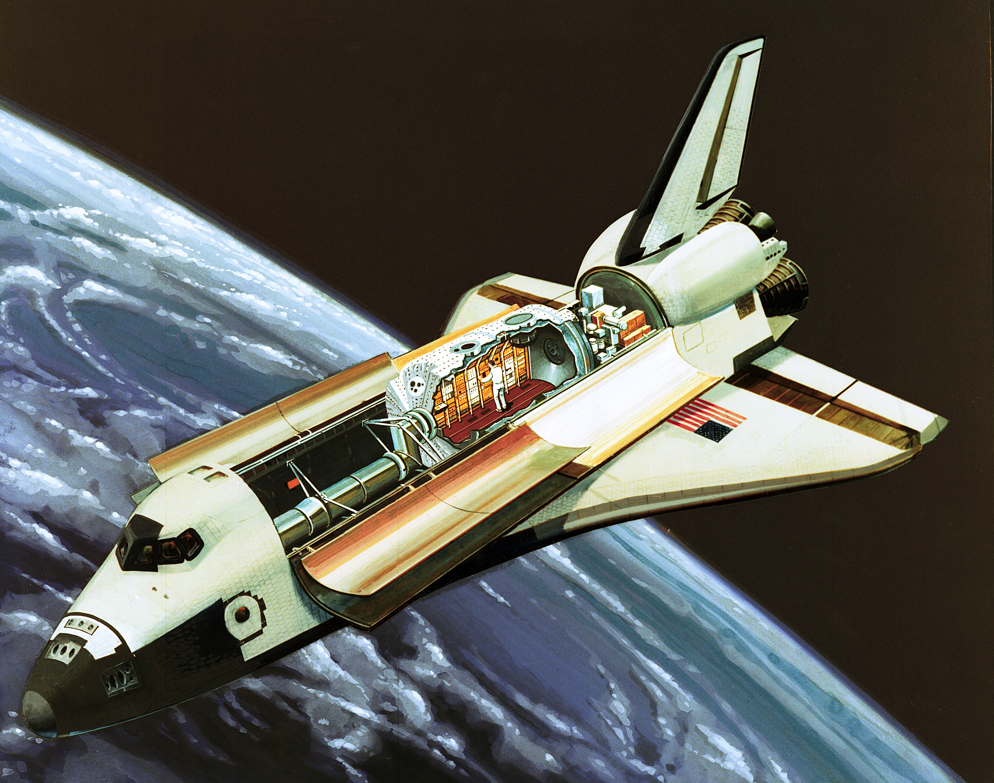 Spacelab was a versatile laboratory carried in the Space Shuttle's cargo bay for special research flights. Its various elements could be combined to accommodate the many types of scientific research that could best be performed in space. Spacelab consisted of an enclosed, pressurized laboratory module and open U-shaped pallets located at the rear of the laboratory module. The laboratory module contained utilities, computers, work benches, and instrument racks to conduct scientific experiments in astronomy, physics, chemistry, biology, medicine, and engineering. Equipment, such as telescopes, anternas, and sensors, was mounted on pallets for direct exposure to space. A 1-meter (3.3-ft.) diameter aluminum tunnel, resembling a z-shaped tube, connected the crew compartment (mid deck) to the module. The reusable Spacelab allowed scientists to bring experiment samples back to Earth for post-flight analysis. Spacelab was a cooperative venture of the European Space Agency (ESA) and NASA. ESA was responsible for funding, developing, and building of Spacelab, while NASA was responsible for the launch and operational use of Spacelab. Spacelab missions were cooperative efforts between scientists and engineers from around the world. Teams from NASA centers, universities, private industry, government agencies and international space organizations designed the experiments. The Marshall Space Flight Center was NASA's lead center for monitoring the development of Spacelab and managing the program.